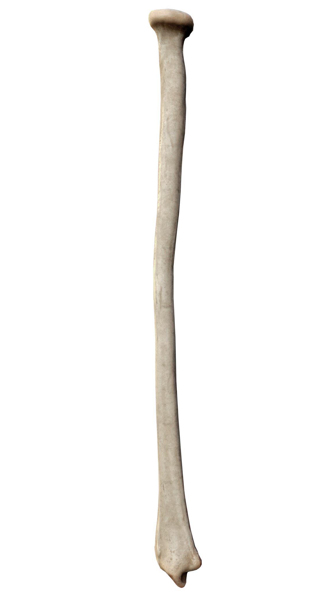 Computer Generated 3d Model showing: Full Lateral View of Right Radius